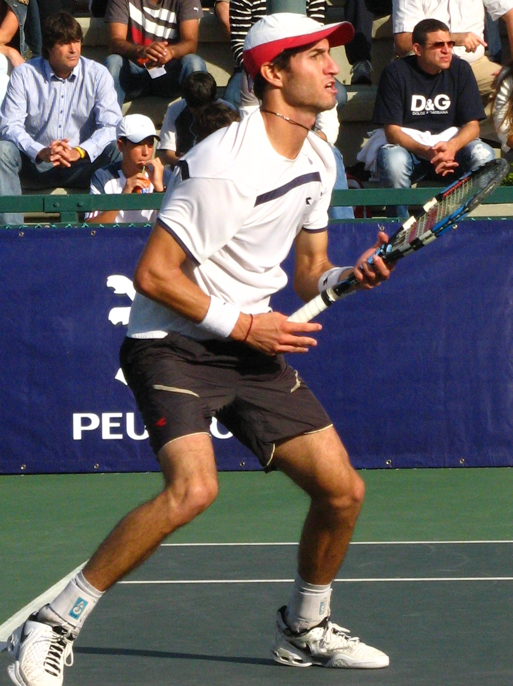 Israeli tennis player Amir Weintraub during the final match of the Israel tennis championship 2010 against Dudi Sela